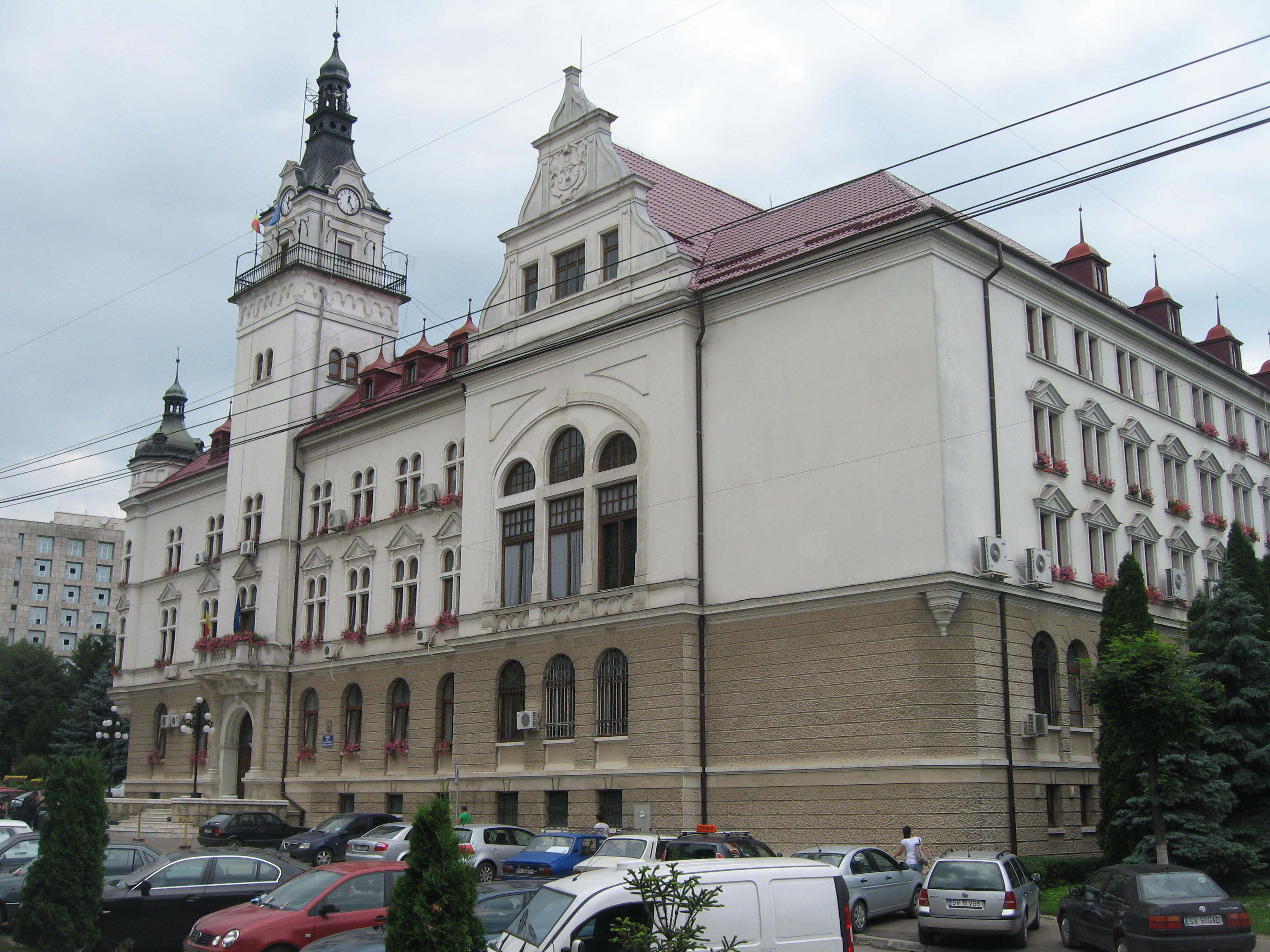 The Administrative Palace in Suceava.